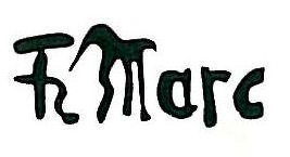 autograph of the painter Franz Marc